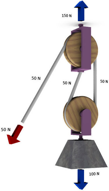 Compound pulley modification of Plispasto2.jpg with an upward force arrow and magnitude label added. I tried to upload as a derivative but I couldn't because it said author information for the old file was required and I couldn't figure out how to do that.